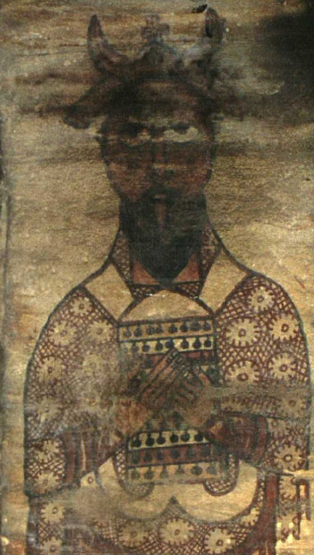 Qorqor Maryam "Eparch"